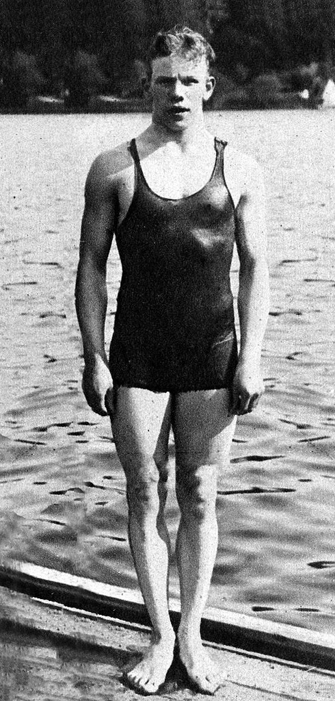 Sport, Platform Diving, 1920 Olympic Games, Antwerp, Belgium, Erik Adlerz, Sweden, the Silver medal winner at Antwerp, and Gold medal 8 years earlier in Stockholm